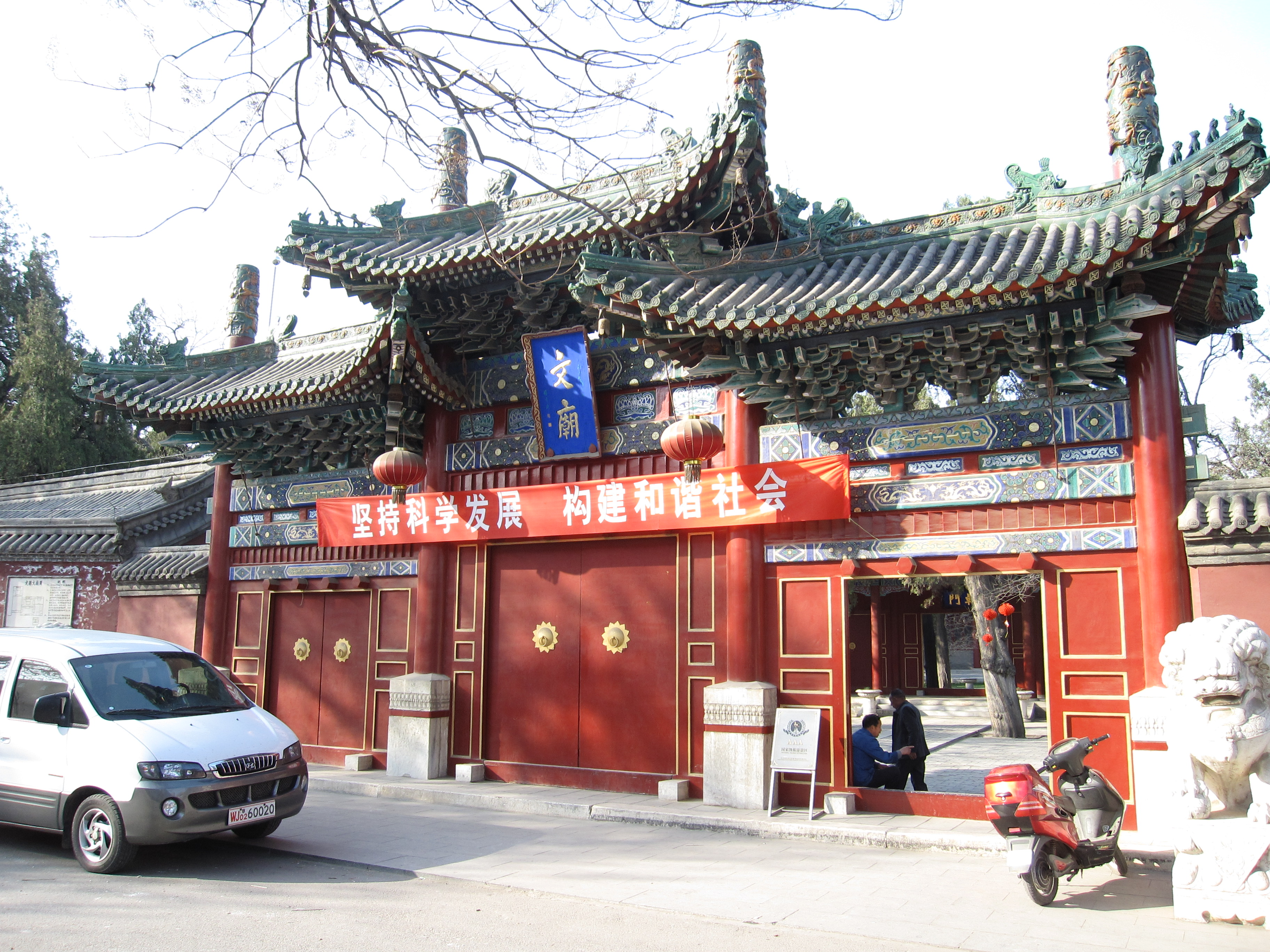 The main gate of the Confucian Temple in Dingzhou, China.